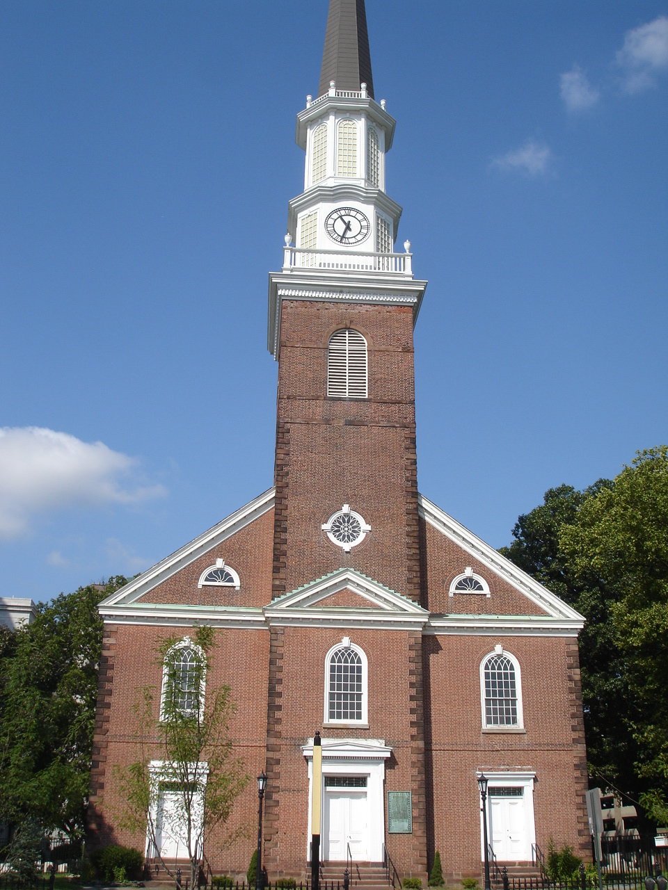 I took this photo of the First Presbyterian Church of Elizabeth myself on September 2, 2011.